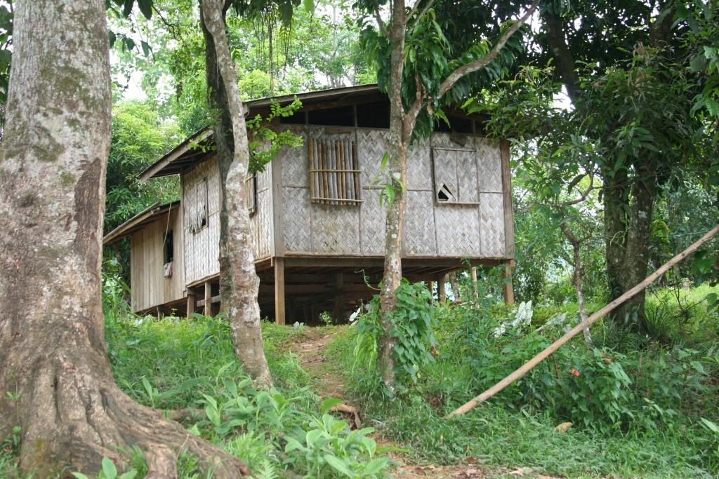 Typical home in the barangay of Dibagat in Kabugao, Apayao province, Philippines.